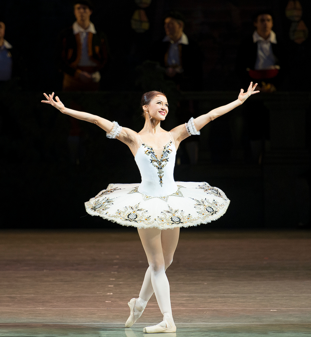 Ballet dancer Elena Evseeva, ballet Don Quixote